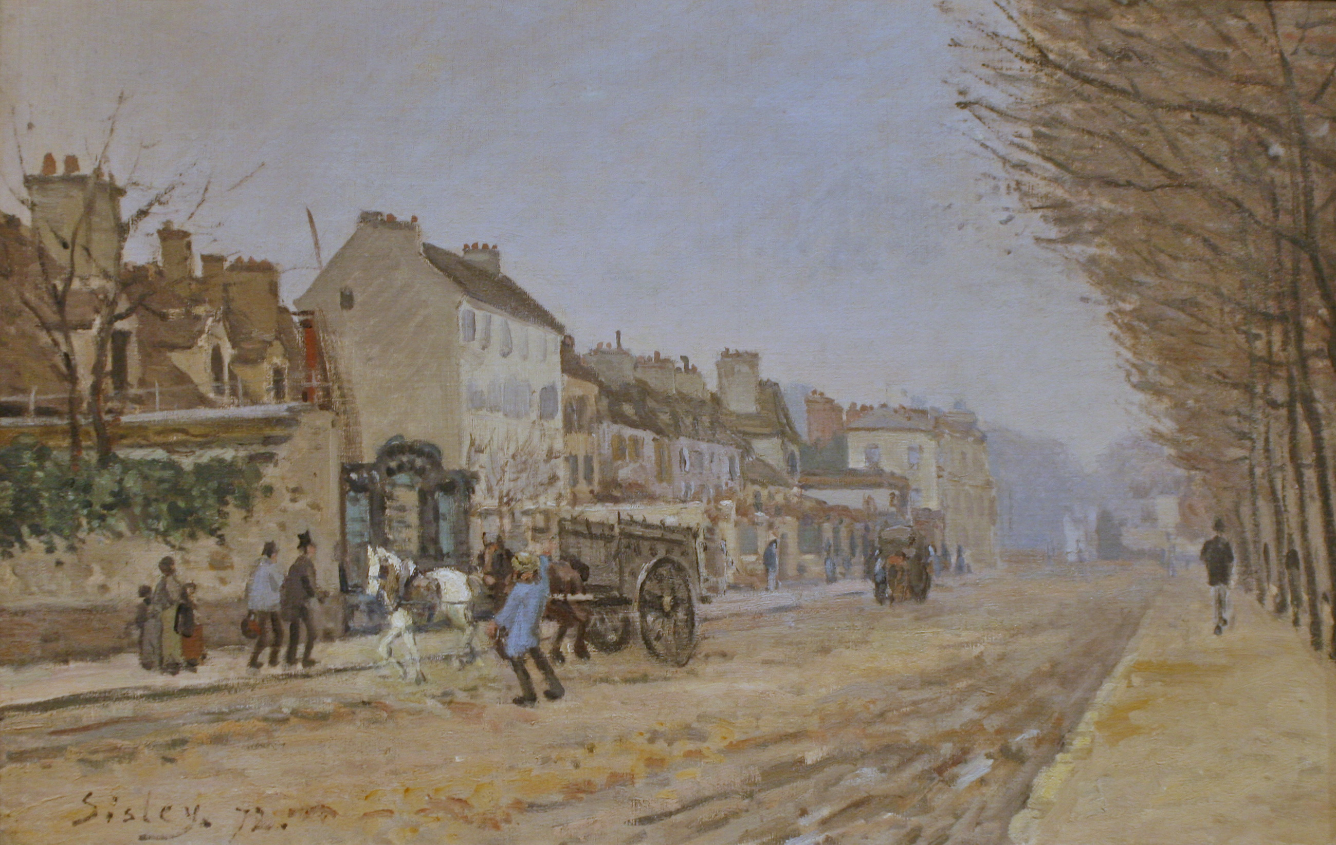 Boulevard Héloïse Argenteuil, 1872, oil on canvas by Alfred Sisley The town of Argenteuil on the Seine was less than a thirty-minute train ride from Paris' Gare Saint-Lazare. The river widened at Argenteuil, and it became a popular spot for boating and water sports, attracting industry as well. After Monet moved there in 1871, he often hosted colleagues like Sisley. Sometimes the two friends set up their easels side by side, as they seem to have done on the Boulevard Héloïse. Argenteuil attracted well-to-do yachtsmen, but here it is the working town that Sisley records. He seems most concerned with its shapes and textures and the delicate colors of the pale winter sky. A softening of detail conveys the chill of a damp day. Of all the impressionists, Sisley was the one most committed to landscape and to the impressionist style in its most pure form, never abandoning, even temporarily, impressionism's goal of capturing the transient effects of light and atmosphere. Monet and Sisley met while students of the academic painter Charles Gleyre. With Renoir and Frédéric Bazille, also studying in Gleyre's studio, and with Camille Pissarro they formulated the essential goals of impressionism.